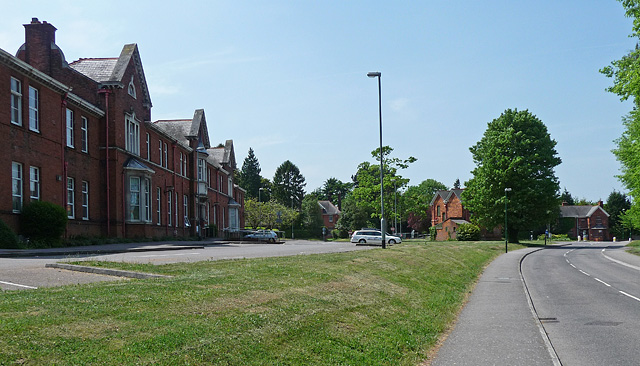 Former Queen Mary's Hospital, Carshalton Beeches